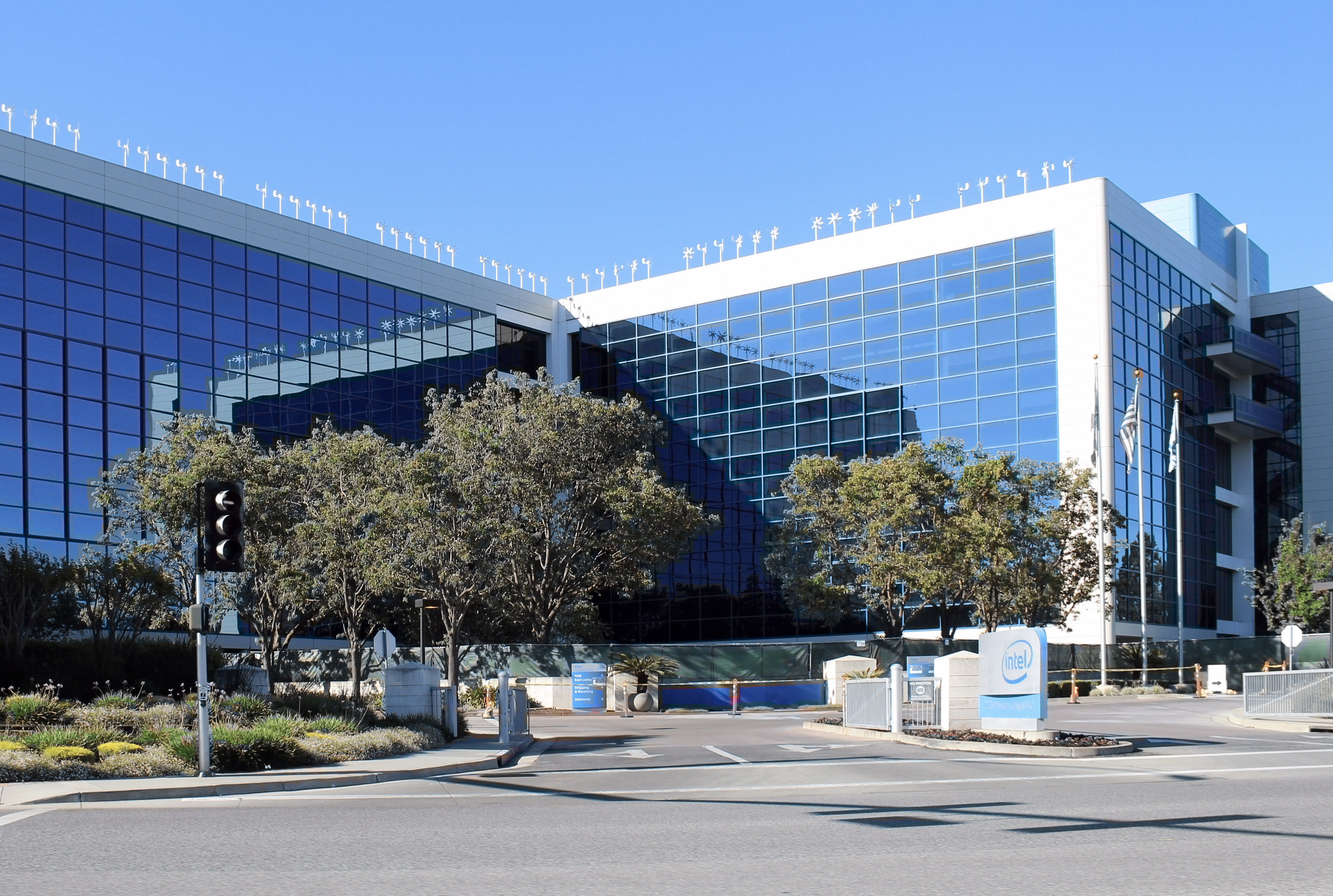 Intel headquarters at 2200 Mission College Boulevard in Santa Clara, California. The objects on the roof are wind microturbines installed in May 2015 as part of a green energy project. Photographed by user Coolcaesar on April 29, 2017.